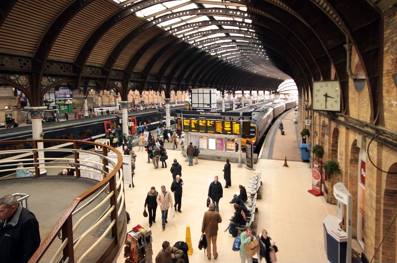 York station at rush hour, England, UK.